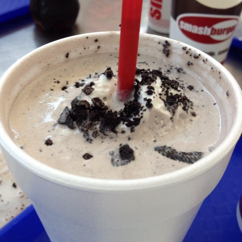 Perfectly creamy #dessert or #beverage and a great way to prepare for a flight (via Foodspotting)